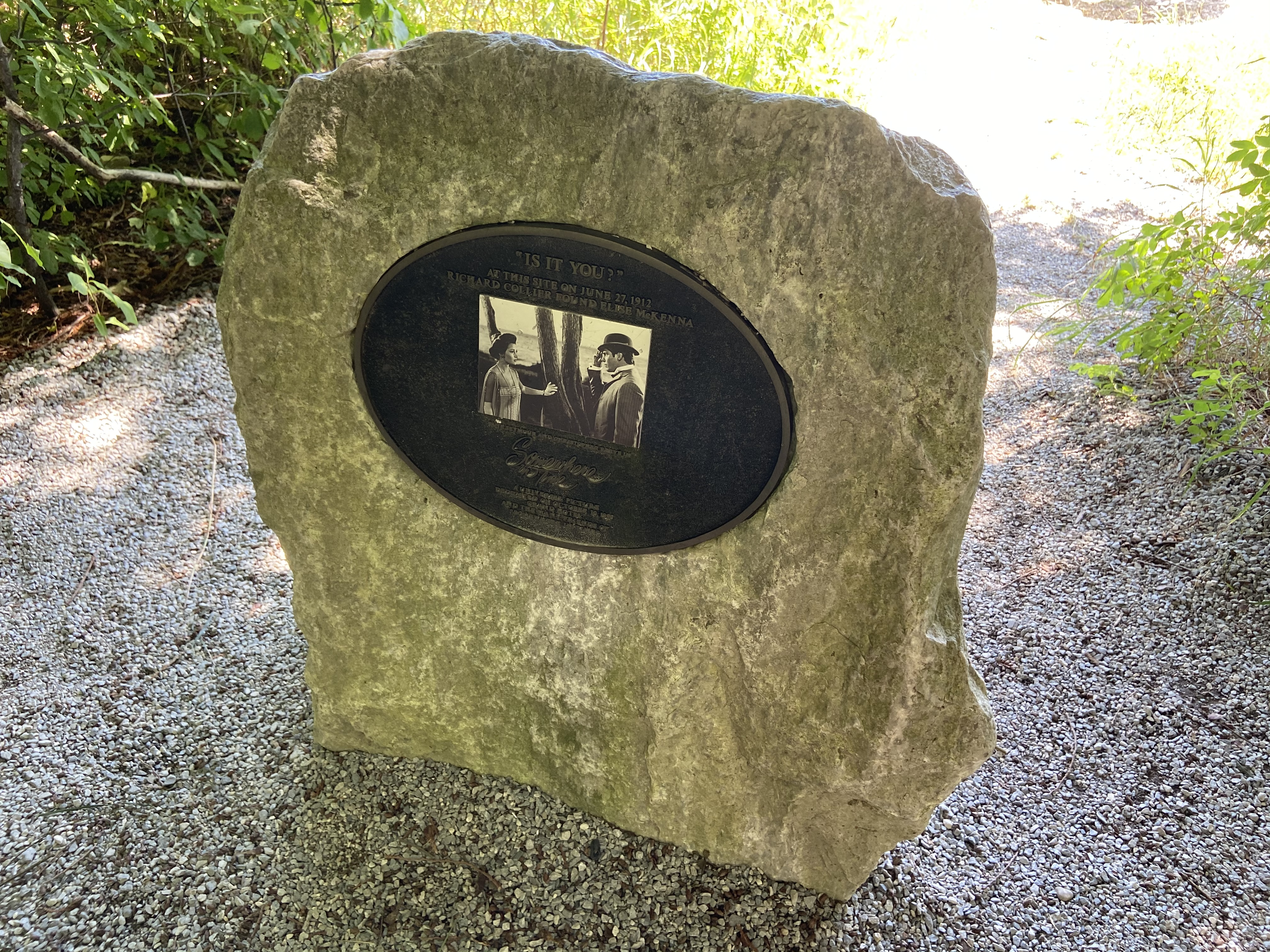 A stone monument dedicated to the film Somewhere in Time, located at one of the filming locations on Mackinac Island.